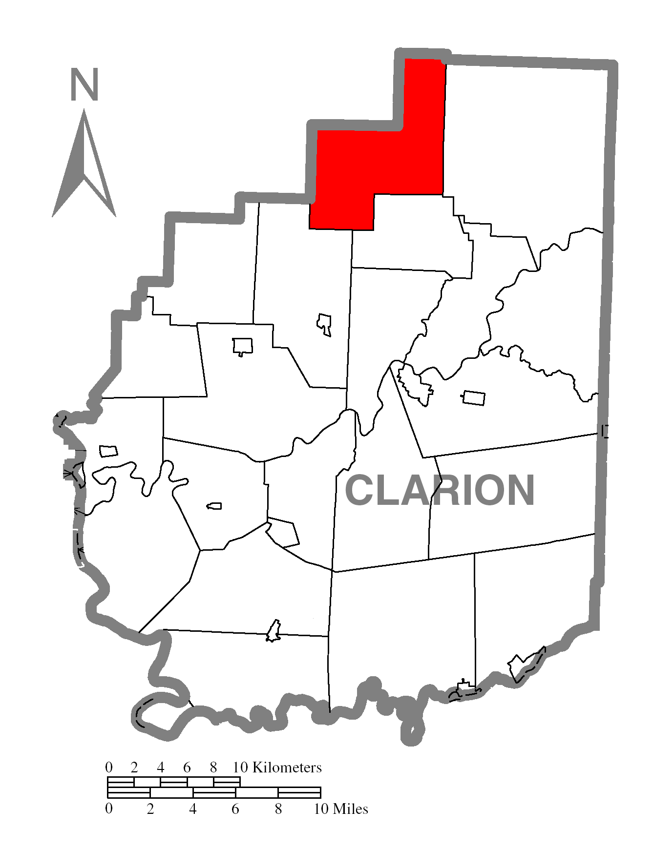 A map of Clarion County showing Washington Township, Pennsylvania (alternate) highlighted on the map.